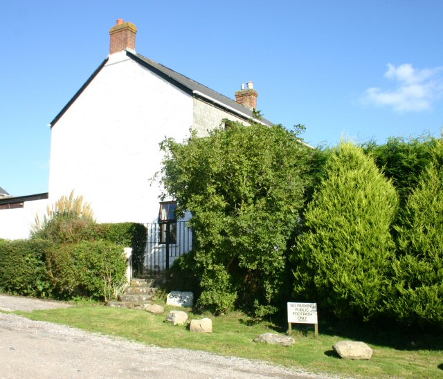 Nevada Farm. Nevada Farm - this is the entrance to Tresoweshill. Do not park near the farm!